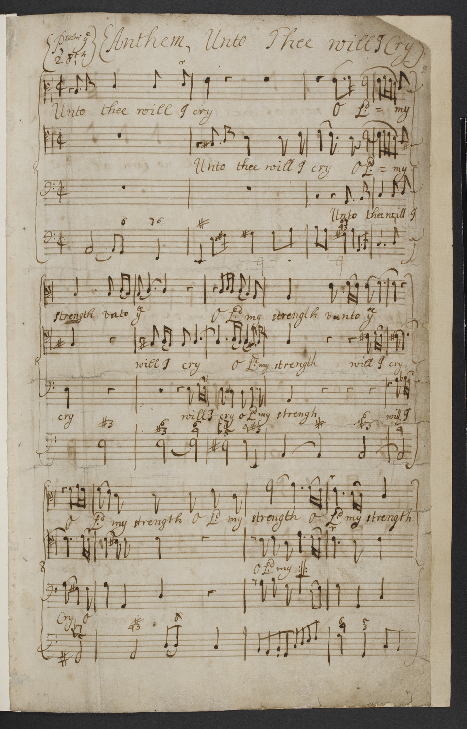 Unto thee I will cry. In the composer's hand.